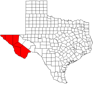 Map of Texas highlighting counties served by the Rio Grande Council of Governments; created by User:Acntx.